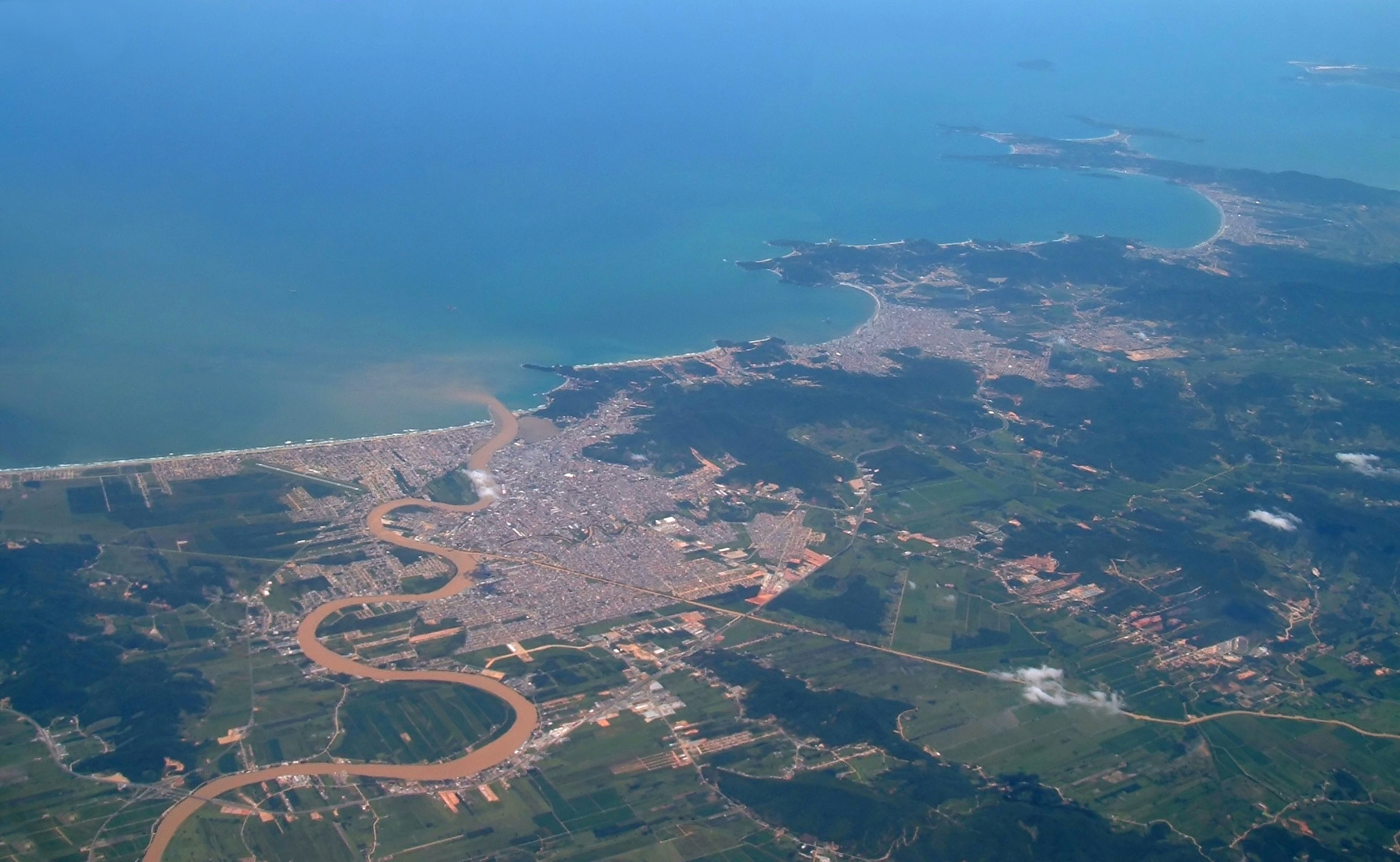 Aerial view of the city of Itajaí on the mouth of Itajai-Acu river in the state of Santa Catarina, Brazil.